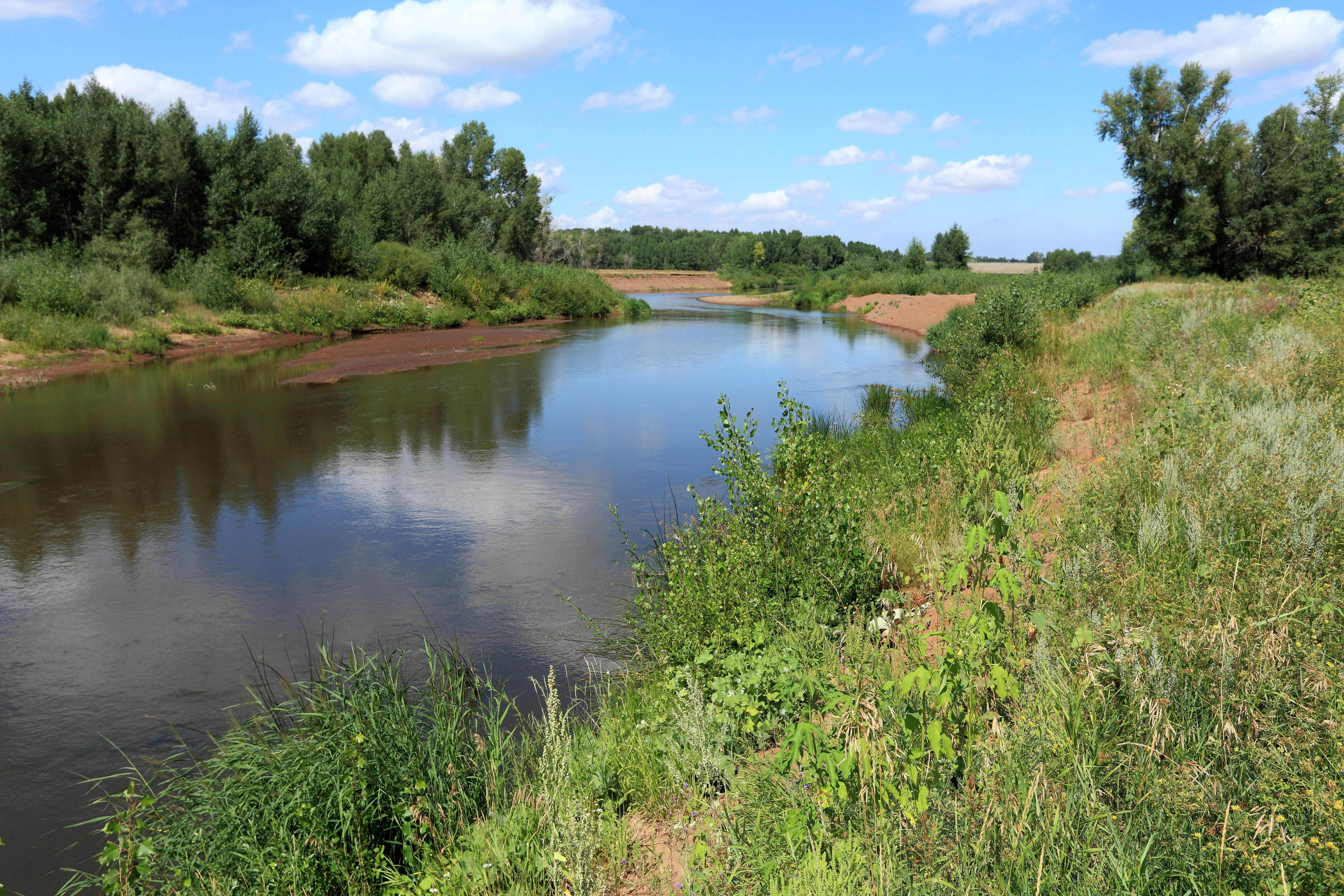 Salmysh River